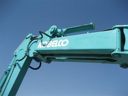 Close up of the Knuckle Boom on a 13 tonne Kobelco excavator.